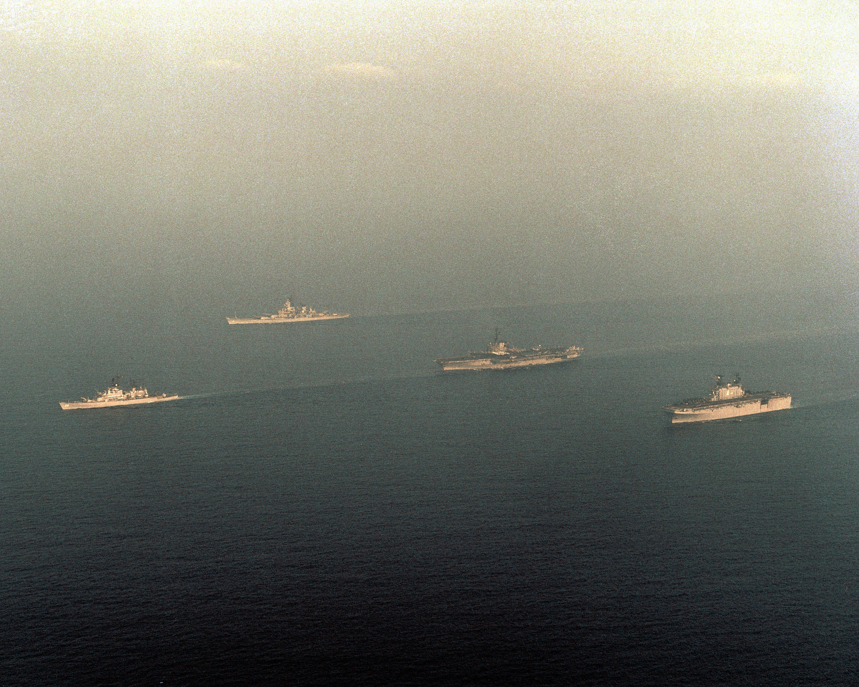 United States Navy warships underway in formation off the coast of Lebanon on 16 August 1989. The ships are, from left, the guided missile cruiser USS Belknap (CG-26), the battleship USS Iowa (BB-61), the aircraft carrier USS Coral Sea (CV-43) and the amphibious assault ship USS Nassau (LHA-4).